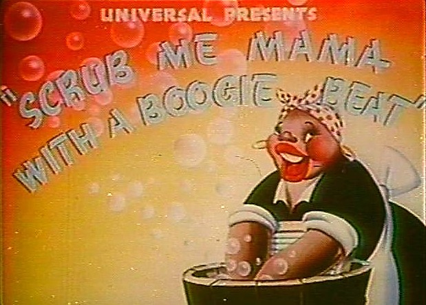 Title screen for Scrub Me Mama with a Boogie Beat.